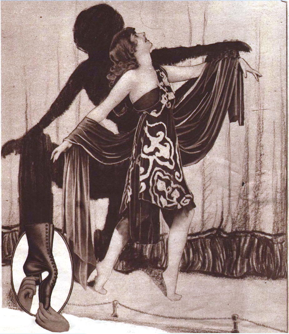 Ruth Page, photographed by Charlotte Fairchild, from an advertisement for Cantilever Shoes, 1922